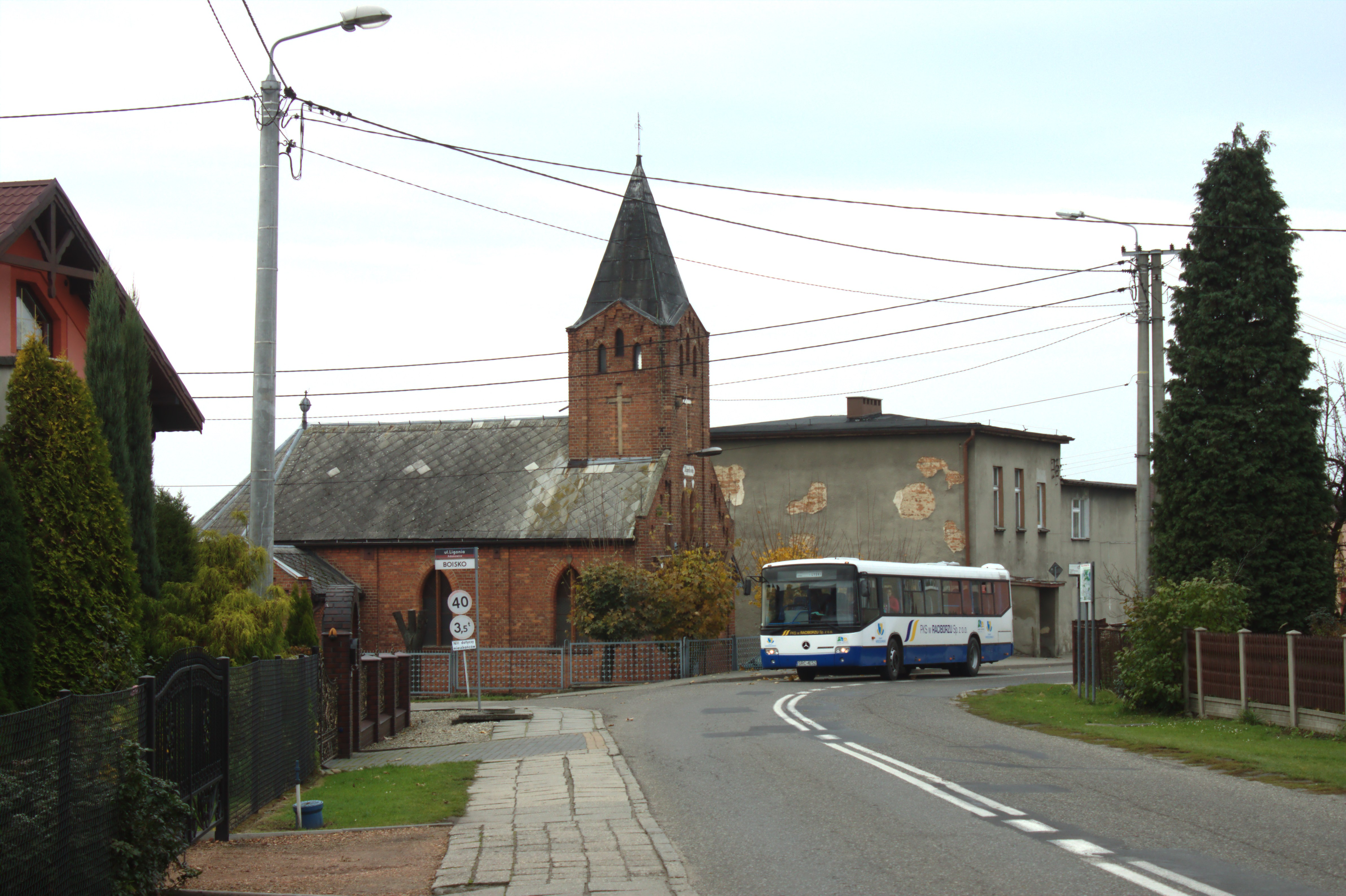 A church in the village of Adamowice, Silesian Voivodeship, PL